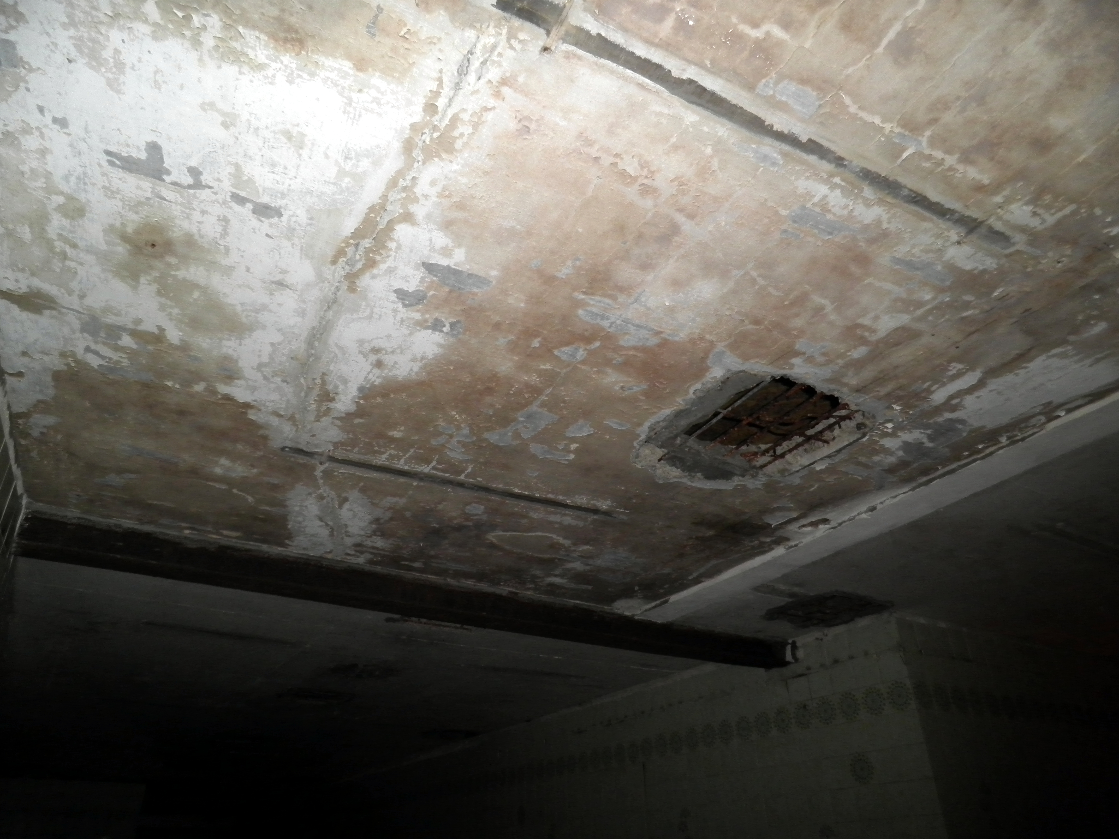 NATO headquarters Cannerberg - Kitchen (ceiling)